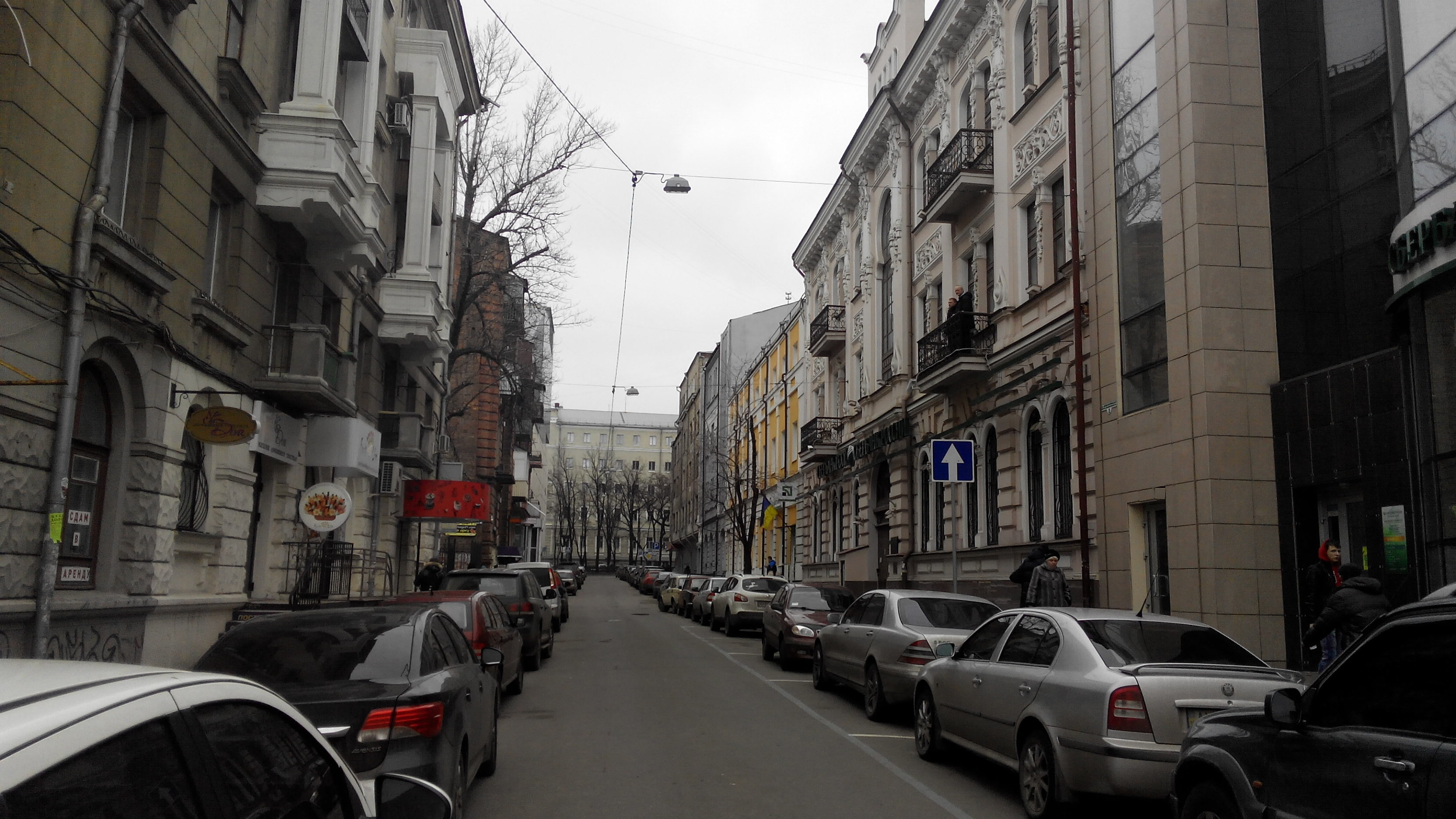 Ucrajina. Kharkiv-city. Donec-Zahargevskiy’s street. 2015